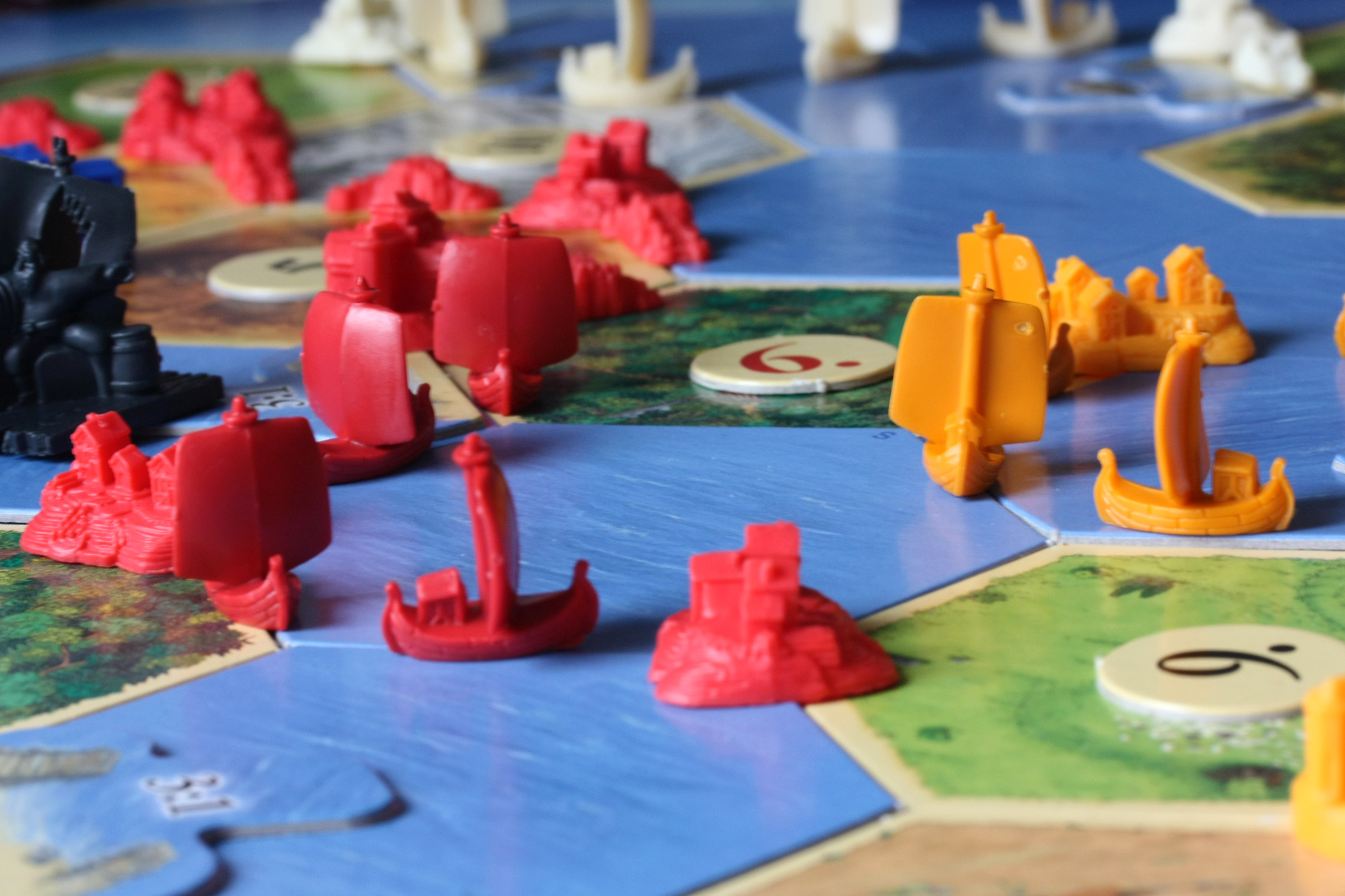 The Seafarers of Catan (expansion of "The Settlers of Catan") board set-up during a game